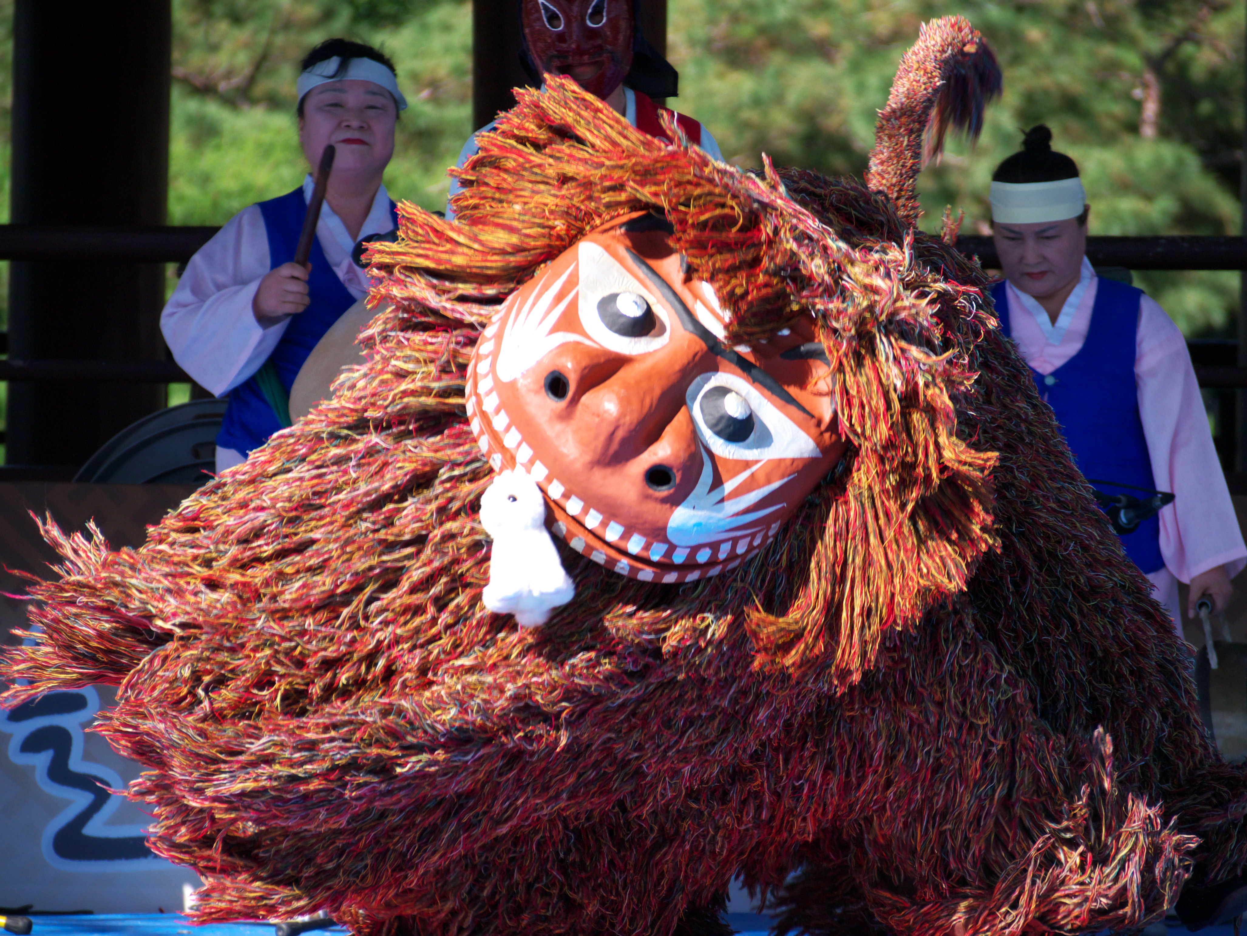 Bukcheong Lion Dance (Euljiro-dong, Seoul, South Korea)